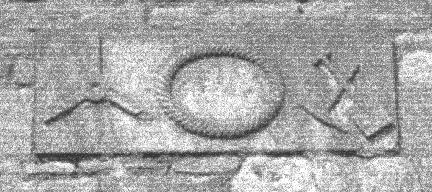 From the wall of Kilmaurs Mill, taken shortly before the building was demolished. It shows a rind, rope, grain shovel and tool for dressing the millstones.